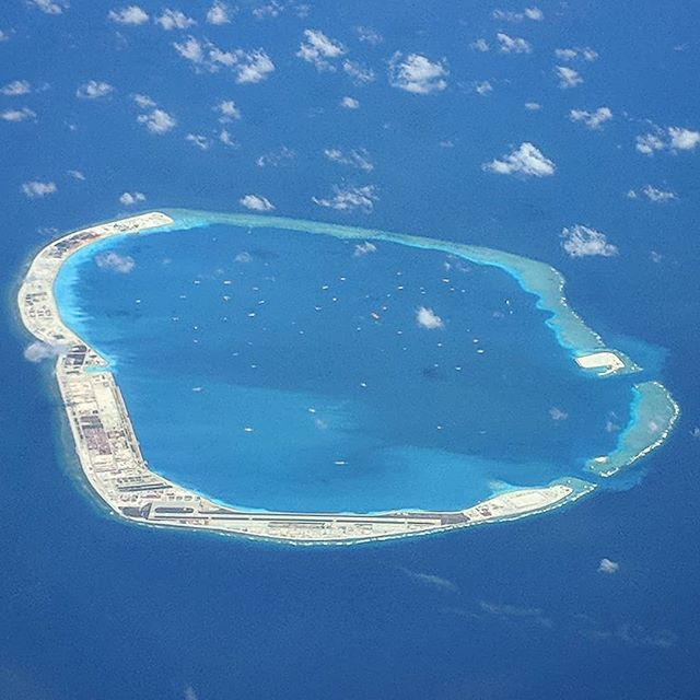 The Mischief Reef in the South China Sea, which was reclaimed and developed by China PR.